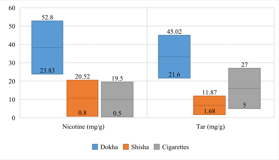 Graph of nicotine and tar level comparisons between dokha and other tobacco products, per University of Sharjah